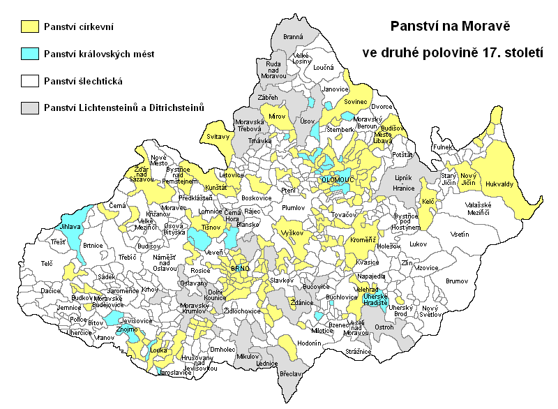 Moravia in second half of 17 century